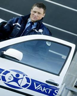 Photo